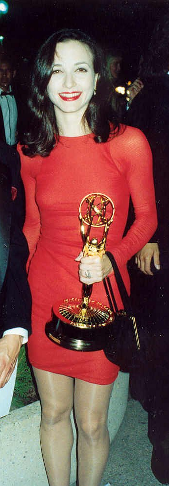 Bebe Neuwirth at the Governor's Ball after the 43rd Annual Emmy Awards, 8/25/91